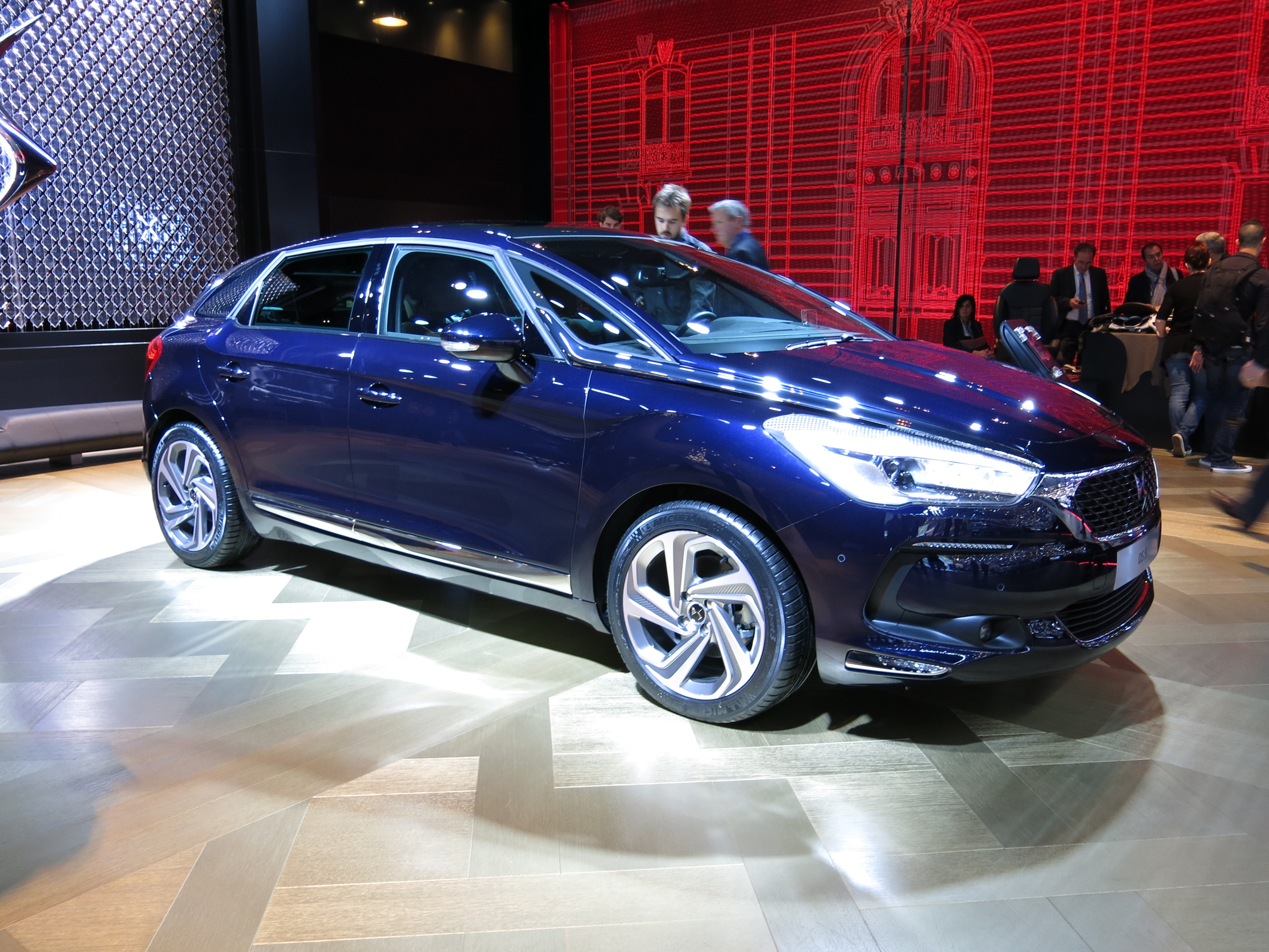 Geneva Motor Show 2015 (photo taken on the first press day)